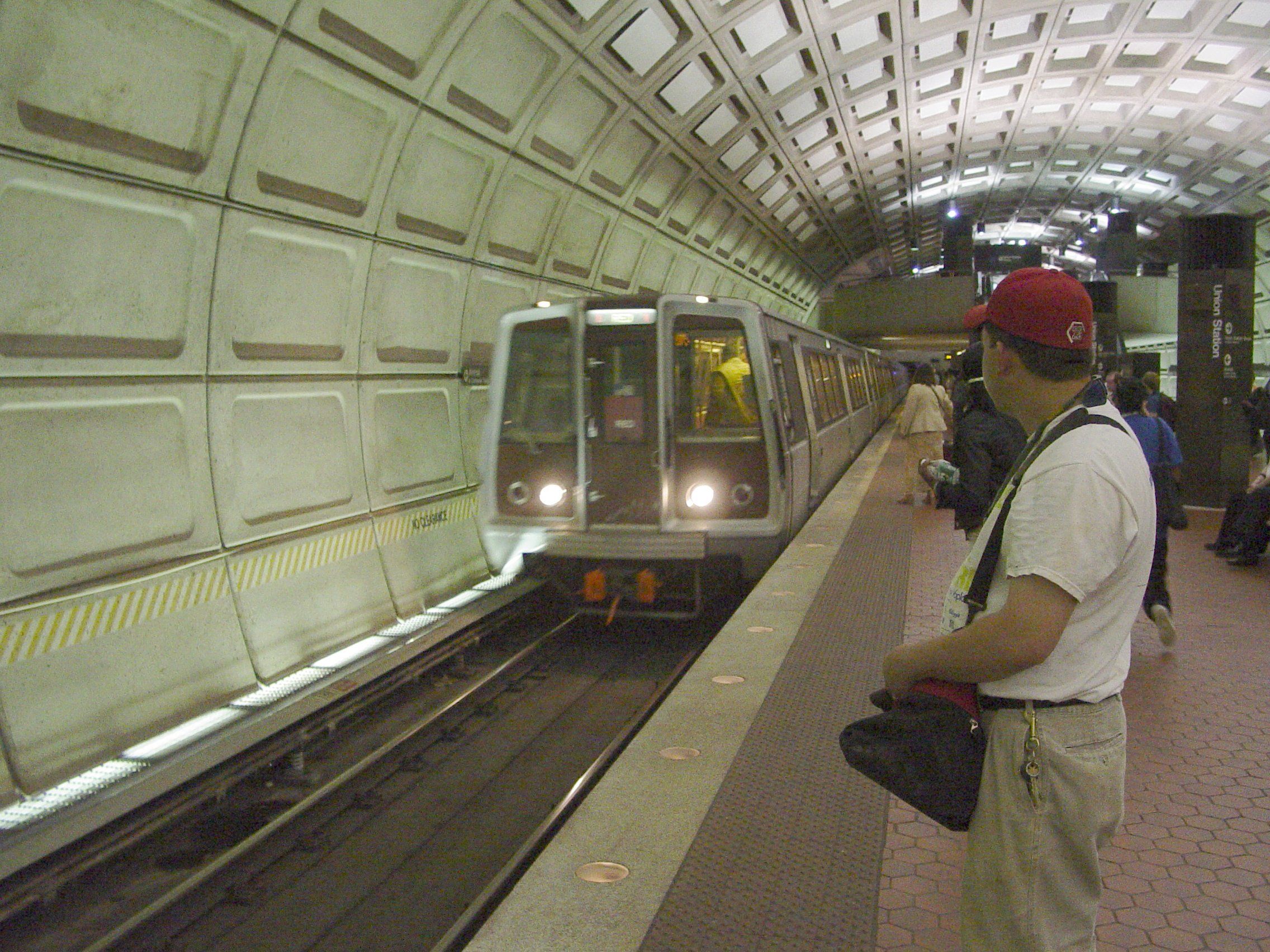 Union Station Metro station